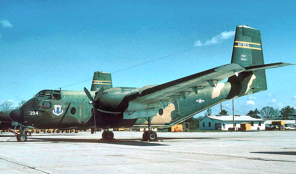 DeHavilland C-7A Caribou 61-2394 918th Tactical Airlift Group, Dobbins AFB, Georgia. Aircraft was transferred to Spanish AF as T.9-25 Jun 1982, later 371-05. Preserved at Museo del Aire, Madrid.